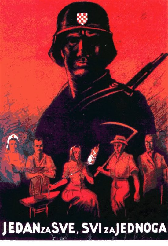 Poster from the ISC with the slogan "one for all, all for one"